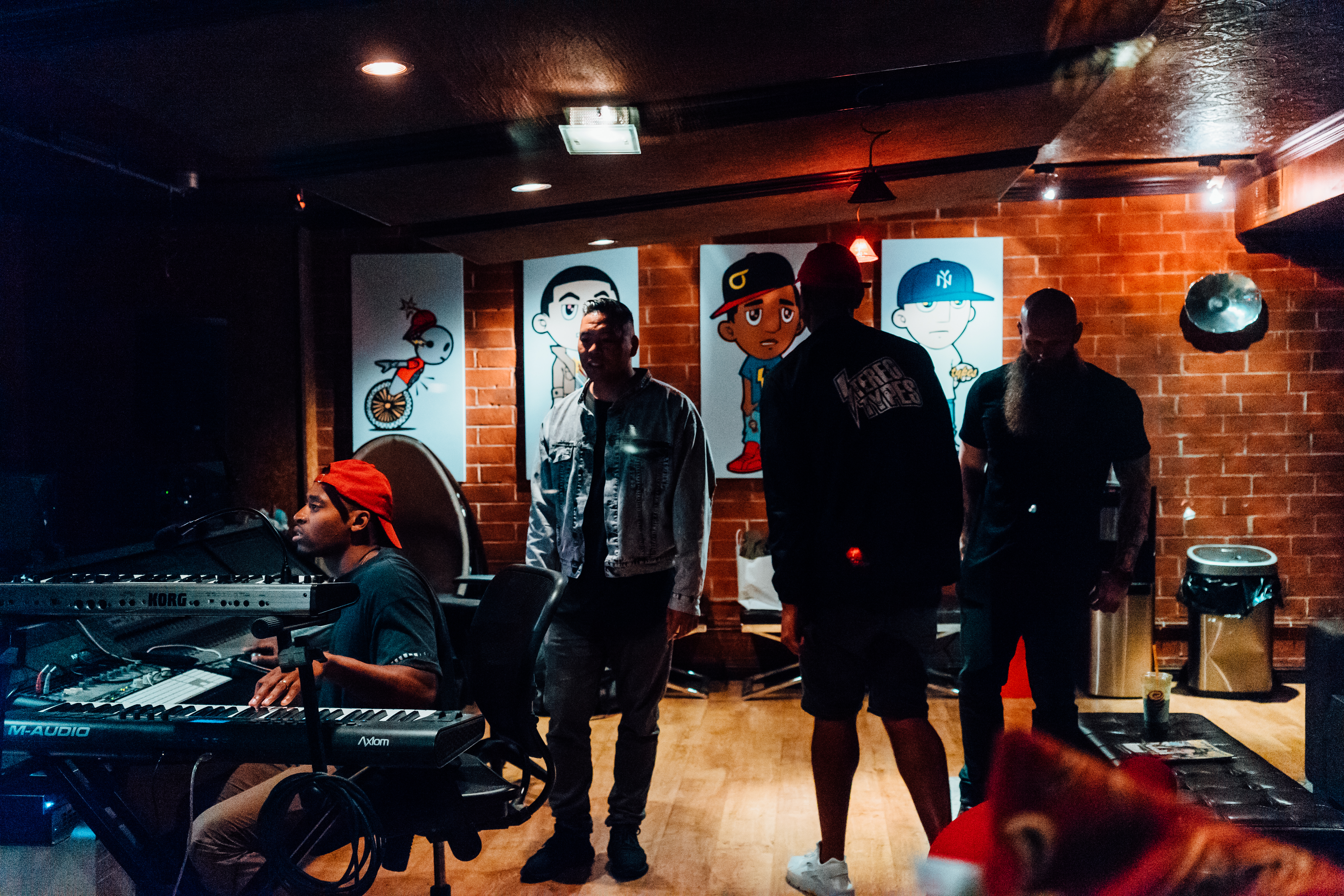 The Stereotypes (Santa Monica)